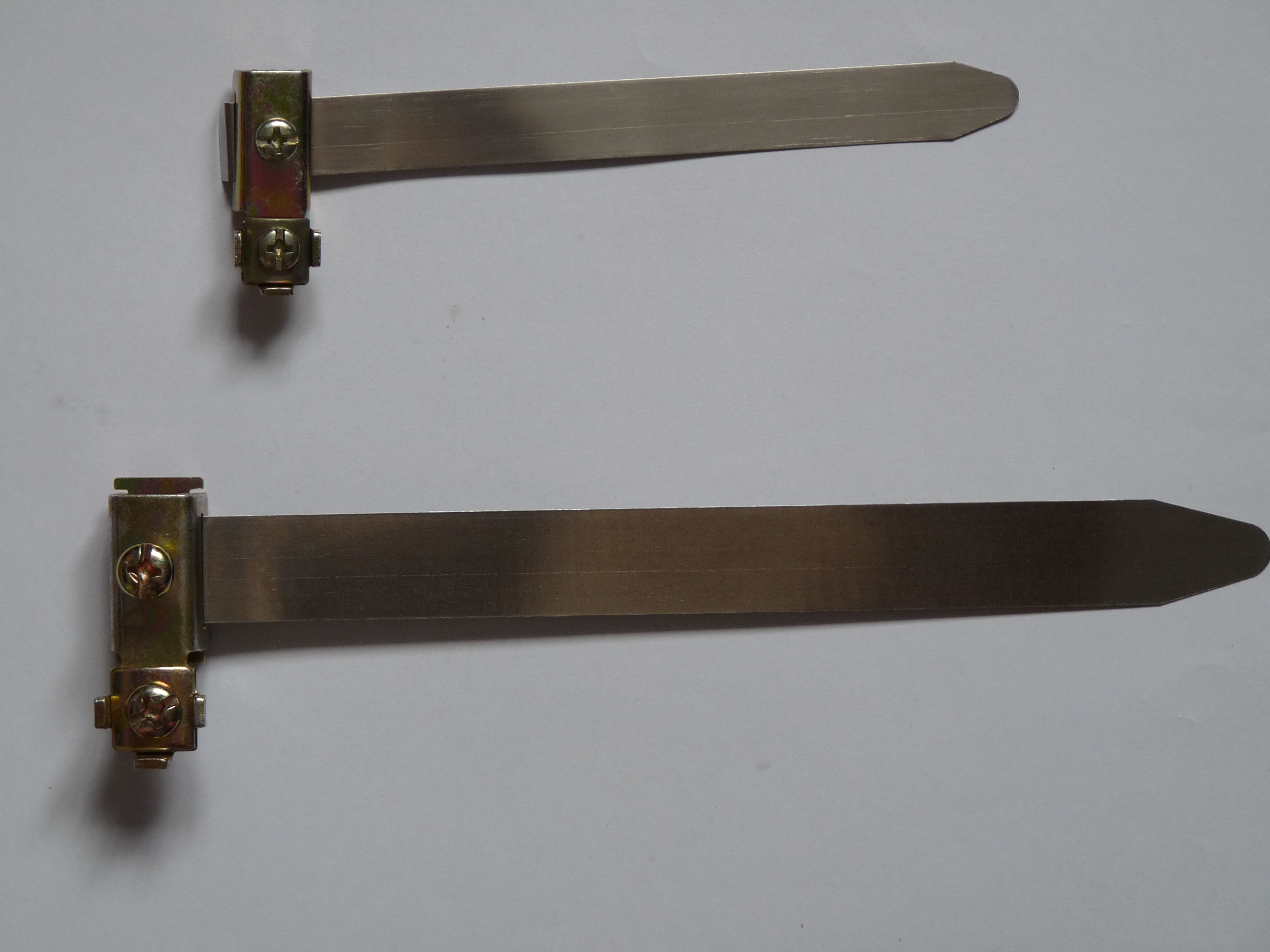 Collar for pipes and other round objects to be connected to the earth.